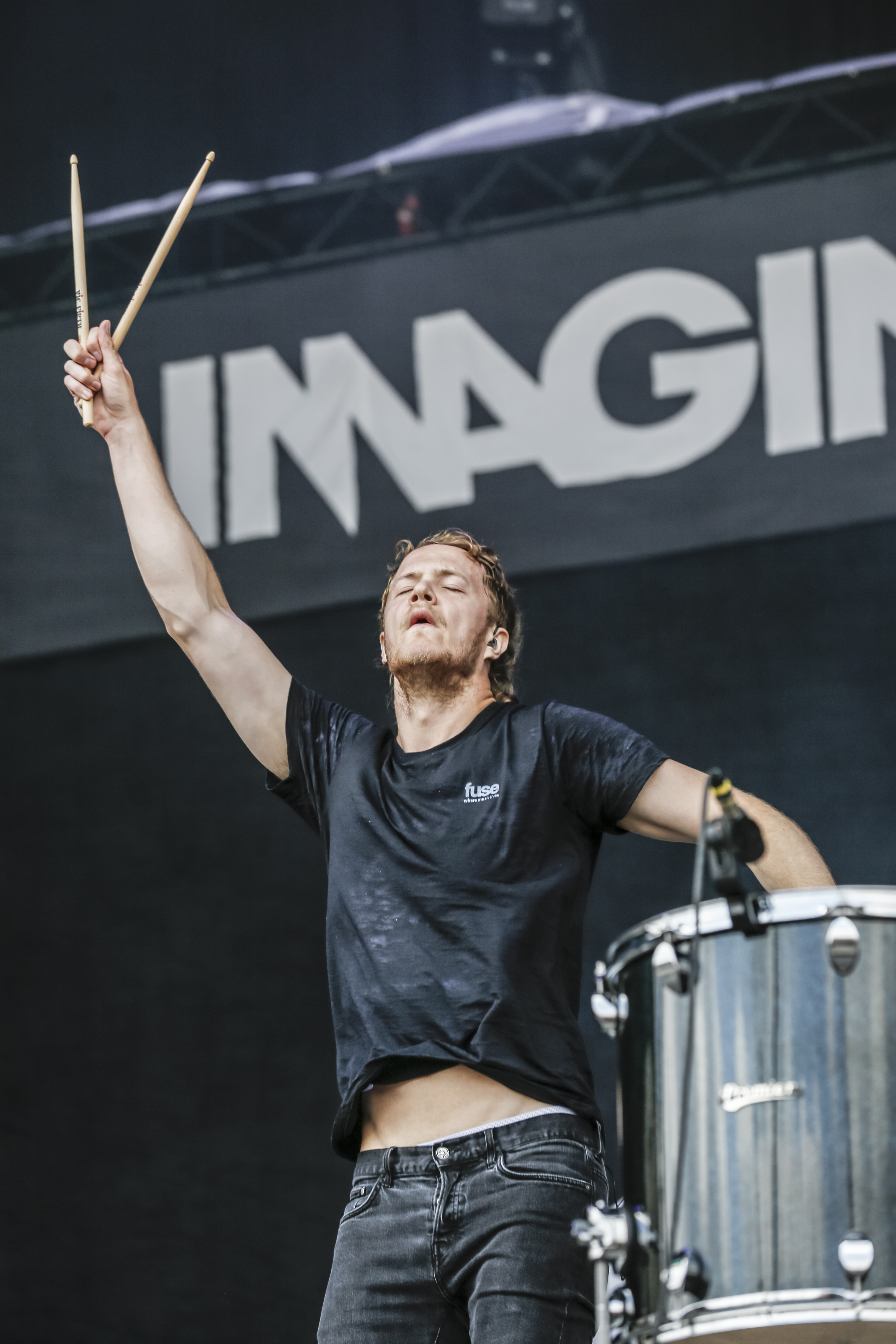 Dan Reynolds of Imagine Dragons at Rock im Park 2013 in Nuremberg, Germany